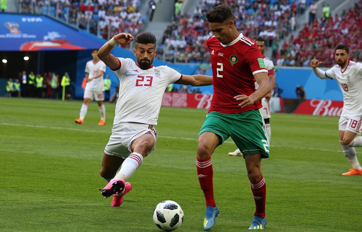 Iran-Morocco match, 2018 FIFA World Cup